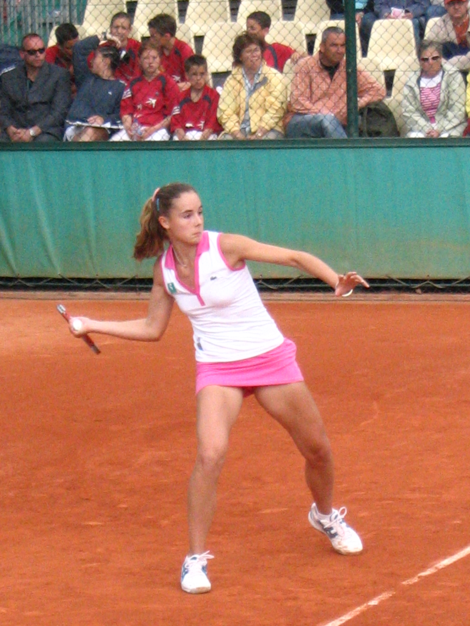 Alizé Cornet, Roland Garros 2005